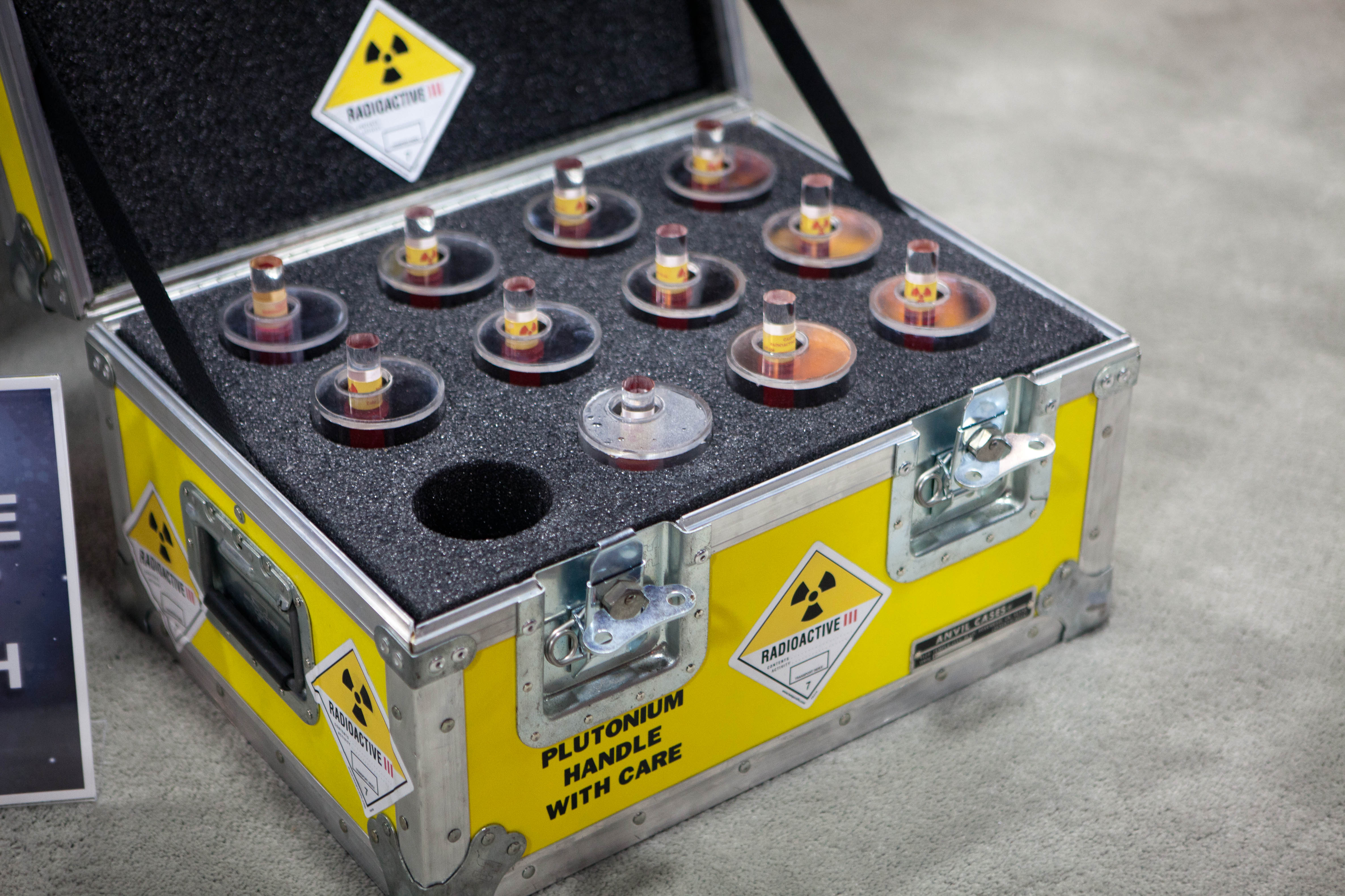 Emmett Brown's plutonium case from the film Back to the Future displayed at San Diego Comic Con 2011.